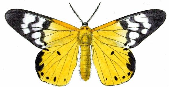 A geometer moth from S Vietnam